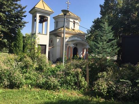 Church in community of Aerodrom